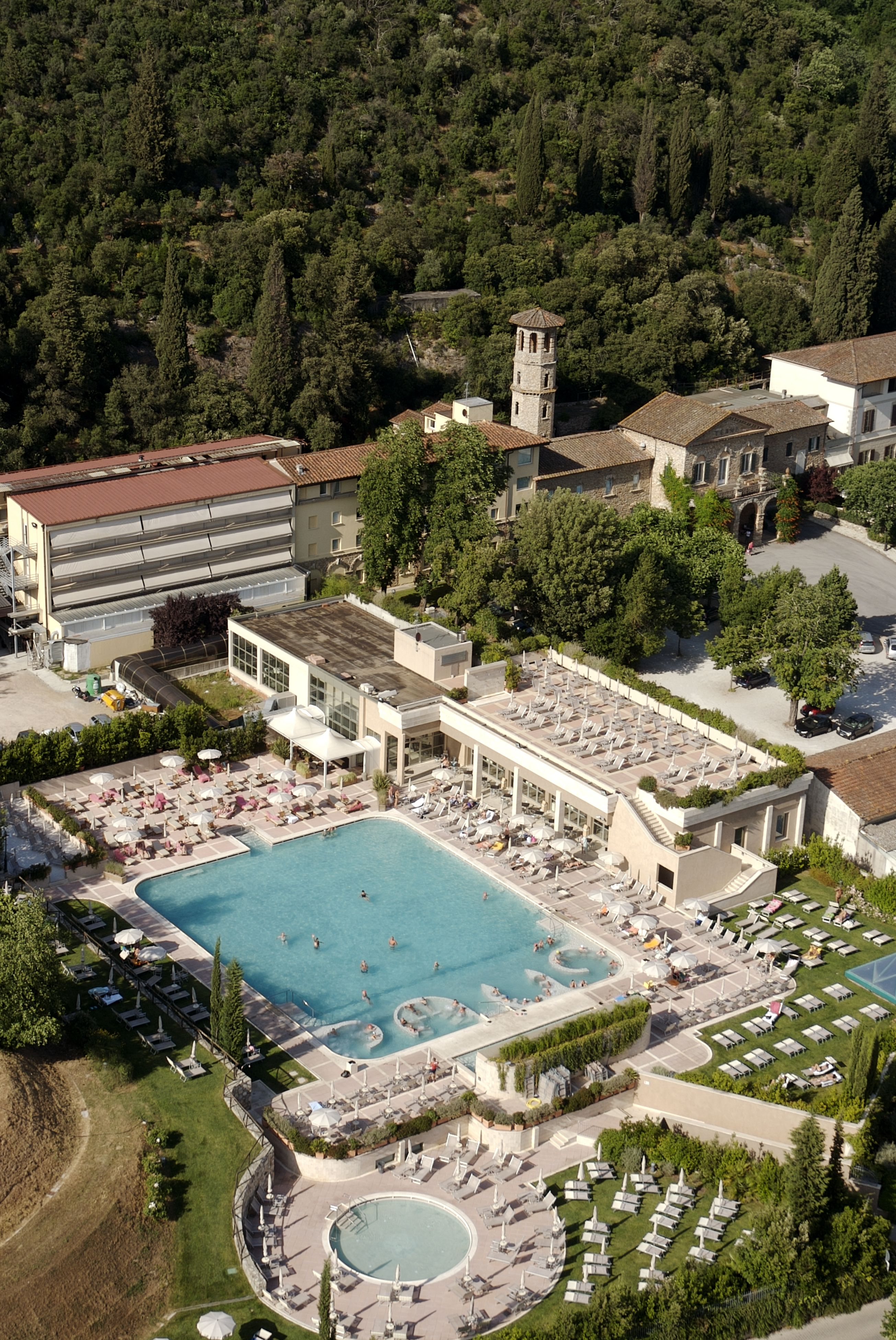 Piscina termale di Grotta Giusti Monsummano Terme